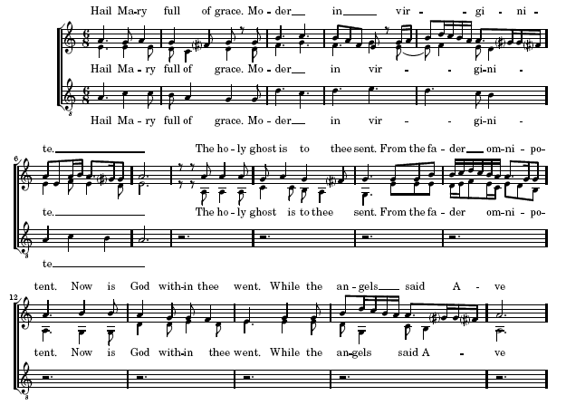 Example of Mensural notation: "Hail Mary full of grace", English Christmas carol, 15th century. Transcribed into modern notation. Music typeset myself, using Lilypond, the free music typesetter.